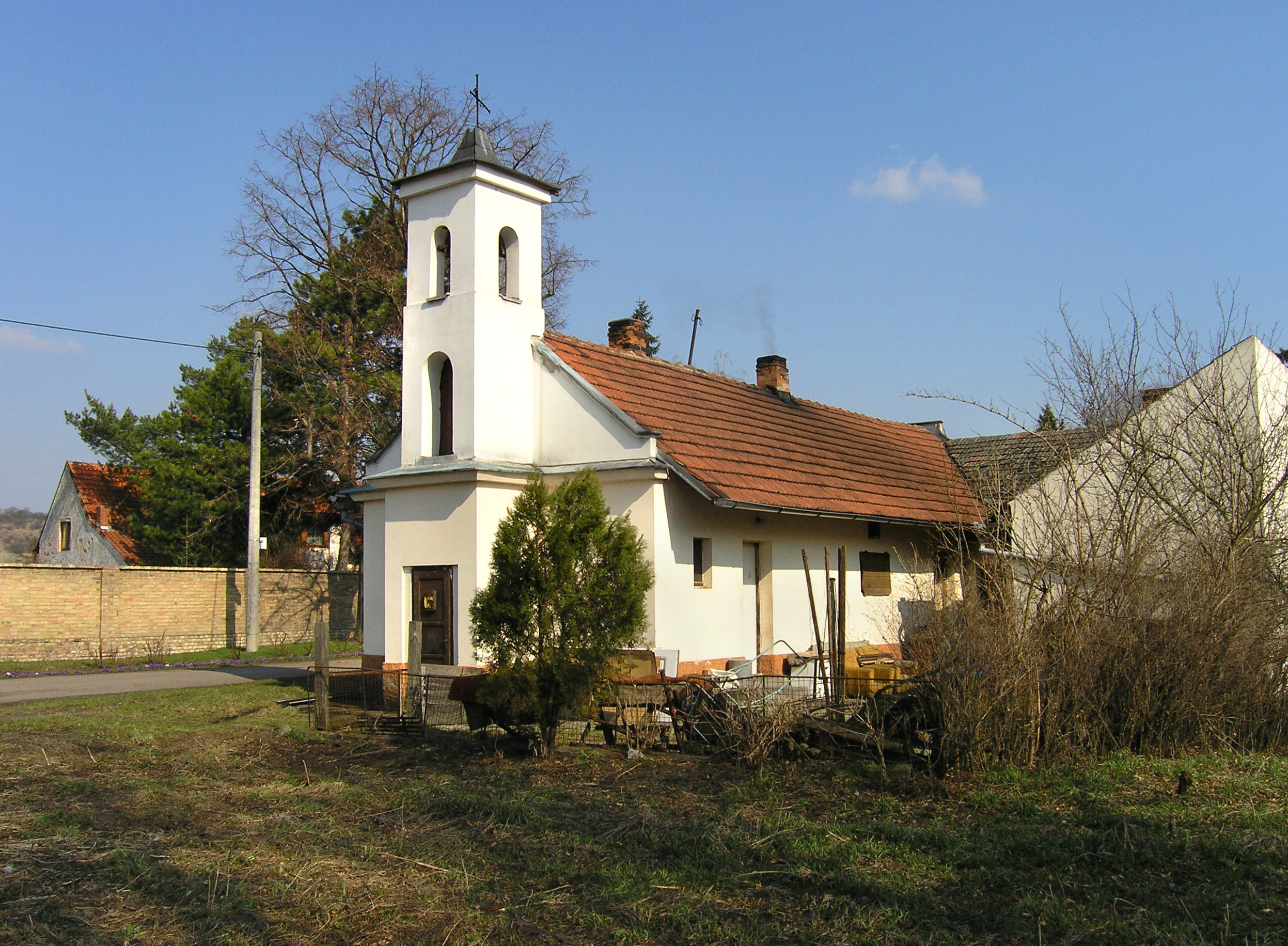 Bell tower in Nedomice village, Czech Republic